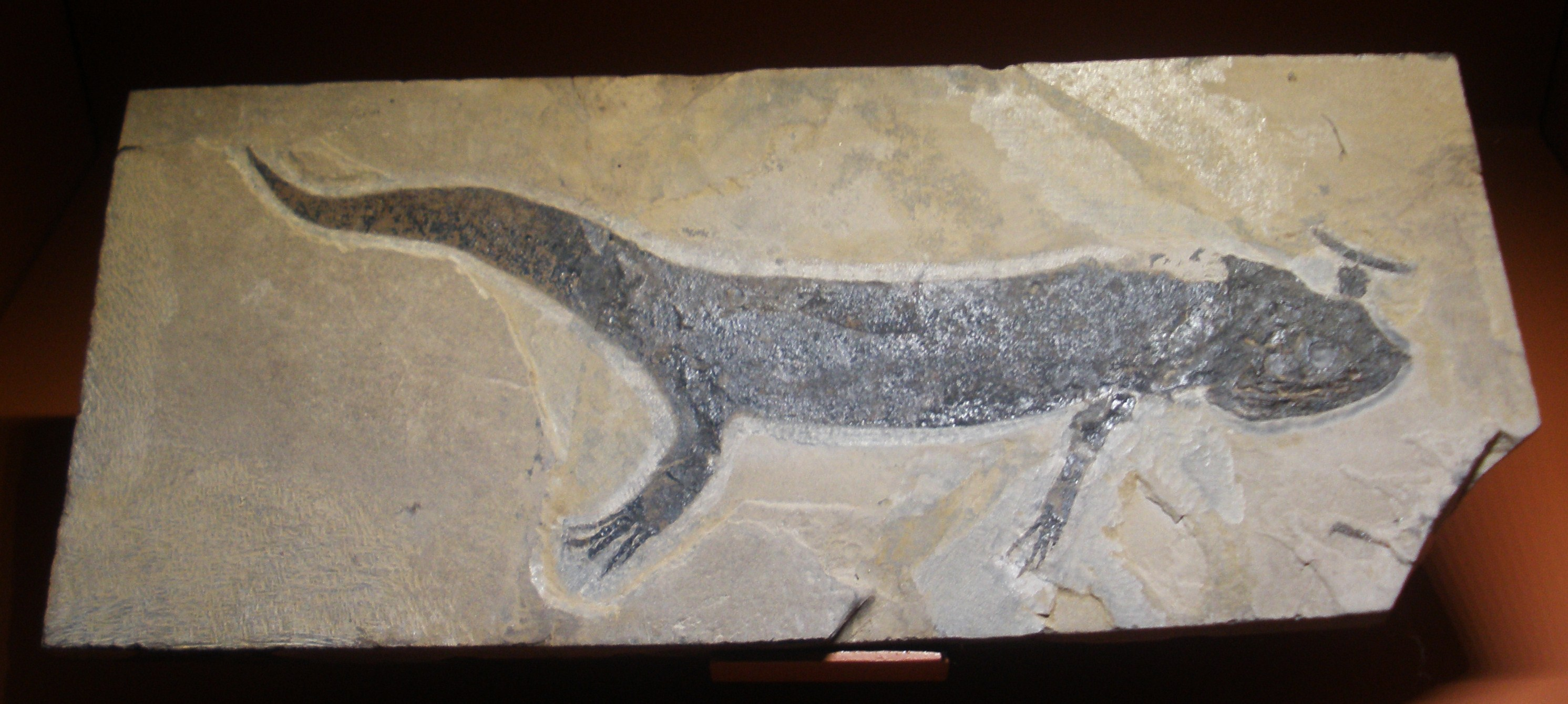 fossil branchiosaurus